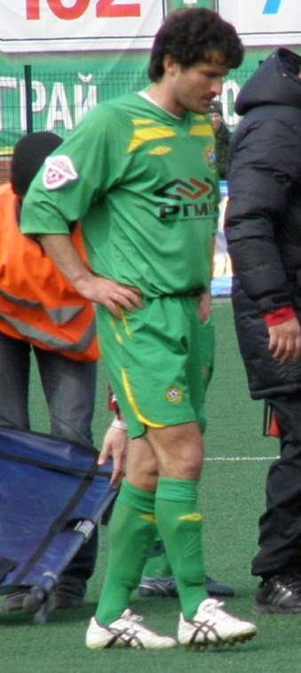 Aslan Zaseev in action for FC Kuban